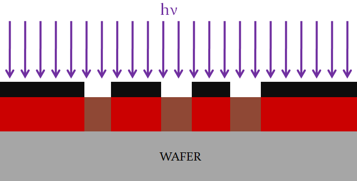 Step 2 of photlithogrphiy, exposure